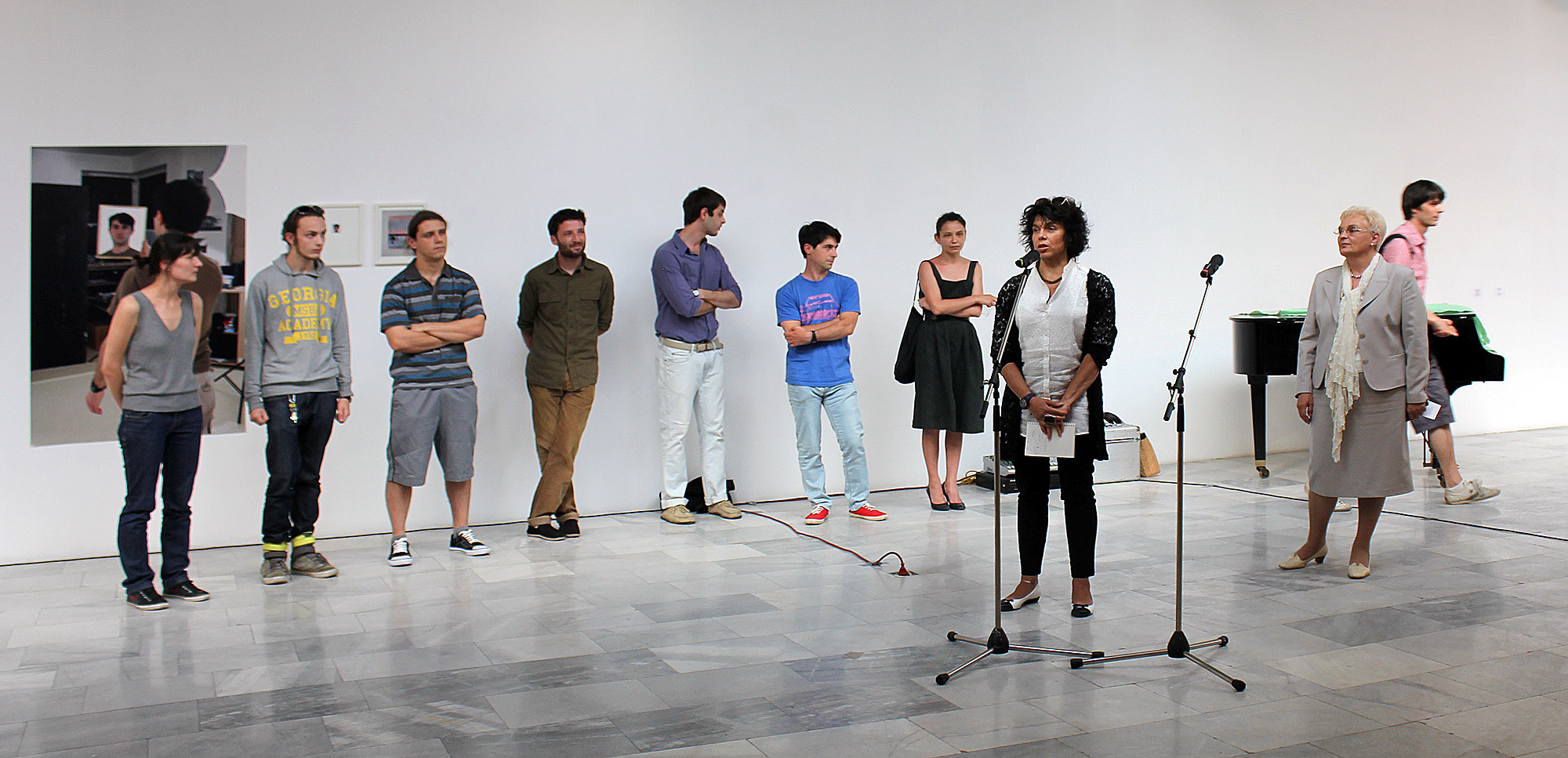 Yara Bubnova announcing 2012 BAZA Award in Sofia Art Gallery, Bulgaria